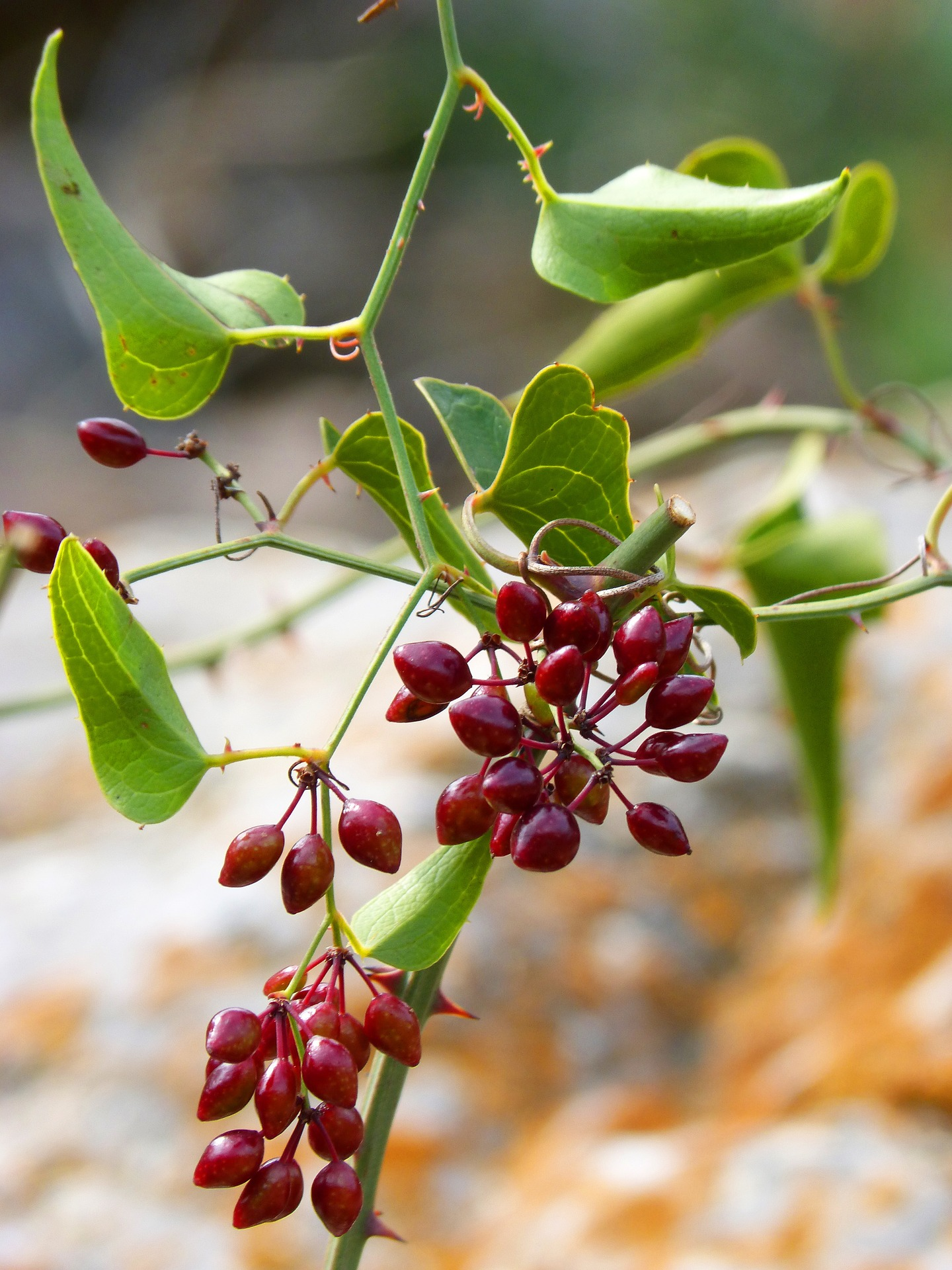 Berries, stems and leaves of Smilax ornata